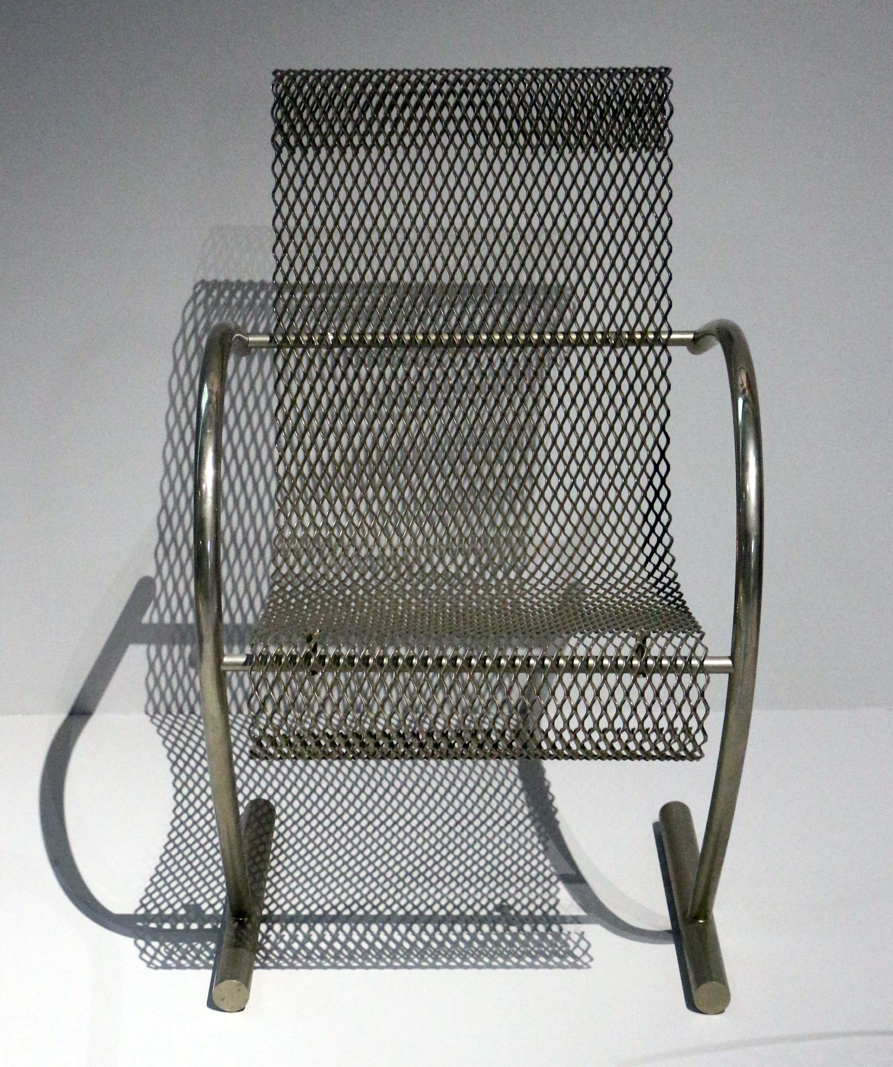 Decorative arts in the Musée national d'art moderne